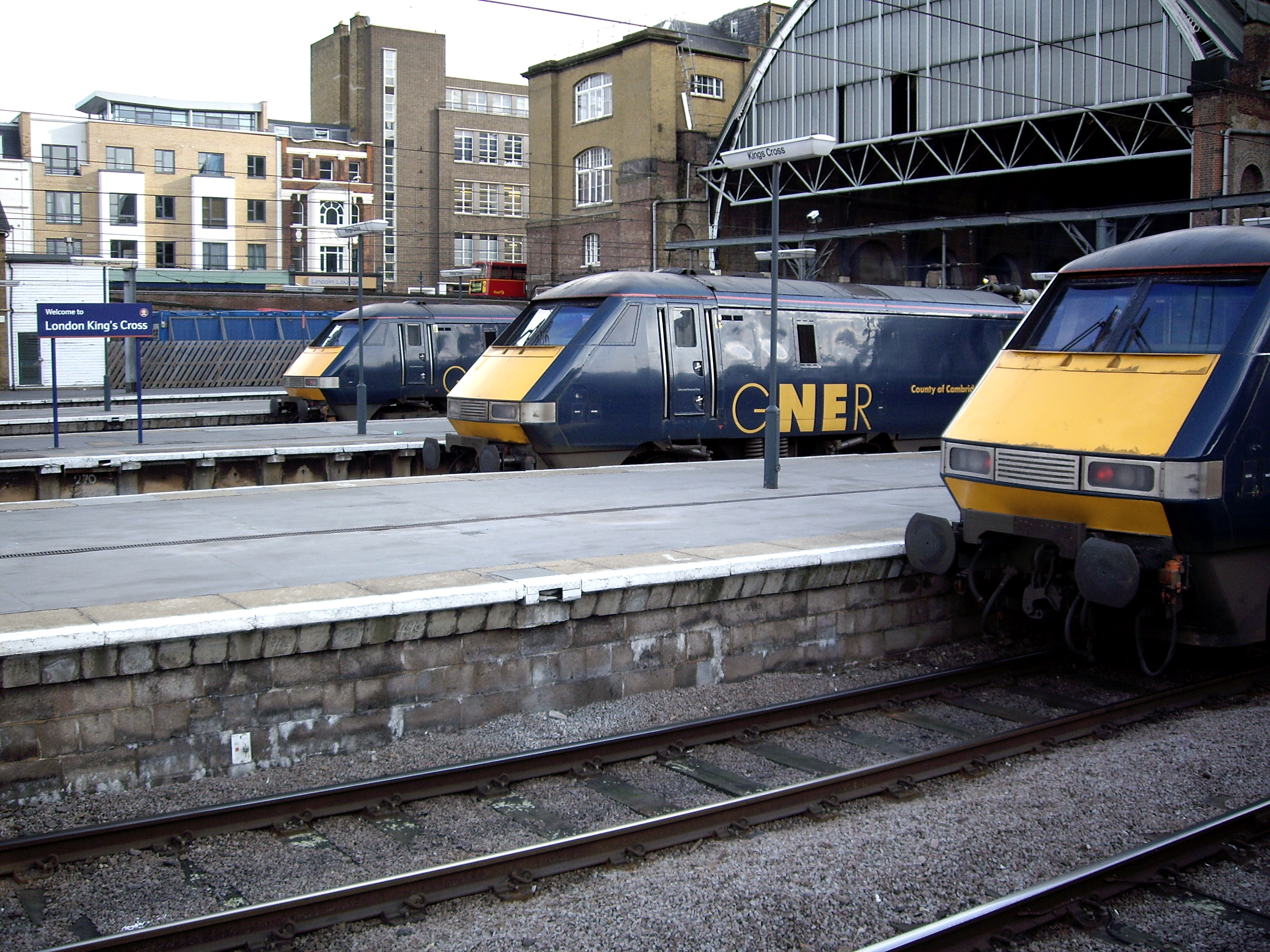 Three Class 91s at the country end of London King's Cross station. Willkm 21:37, 28 January 2006 (UTC)